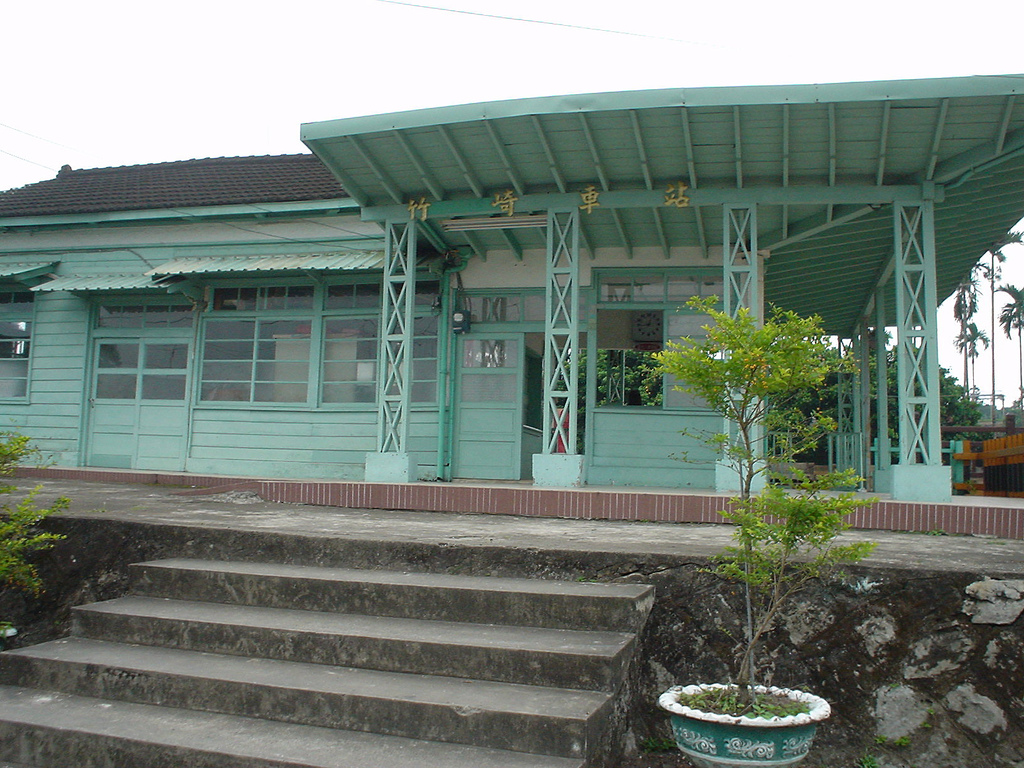 Alishan Forest Railway Jhuci Station